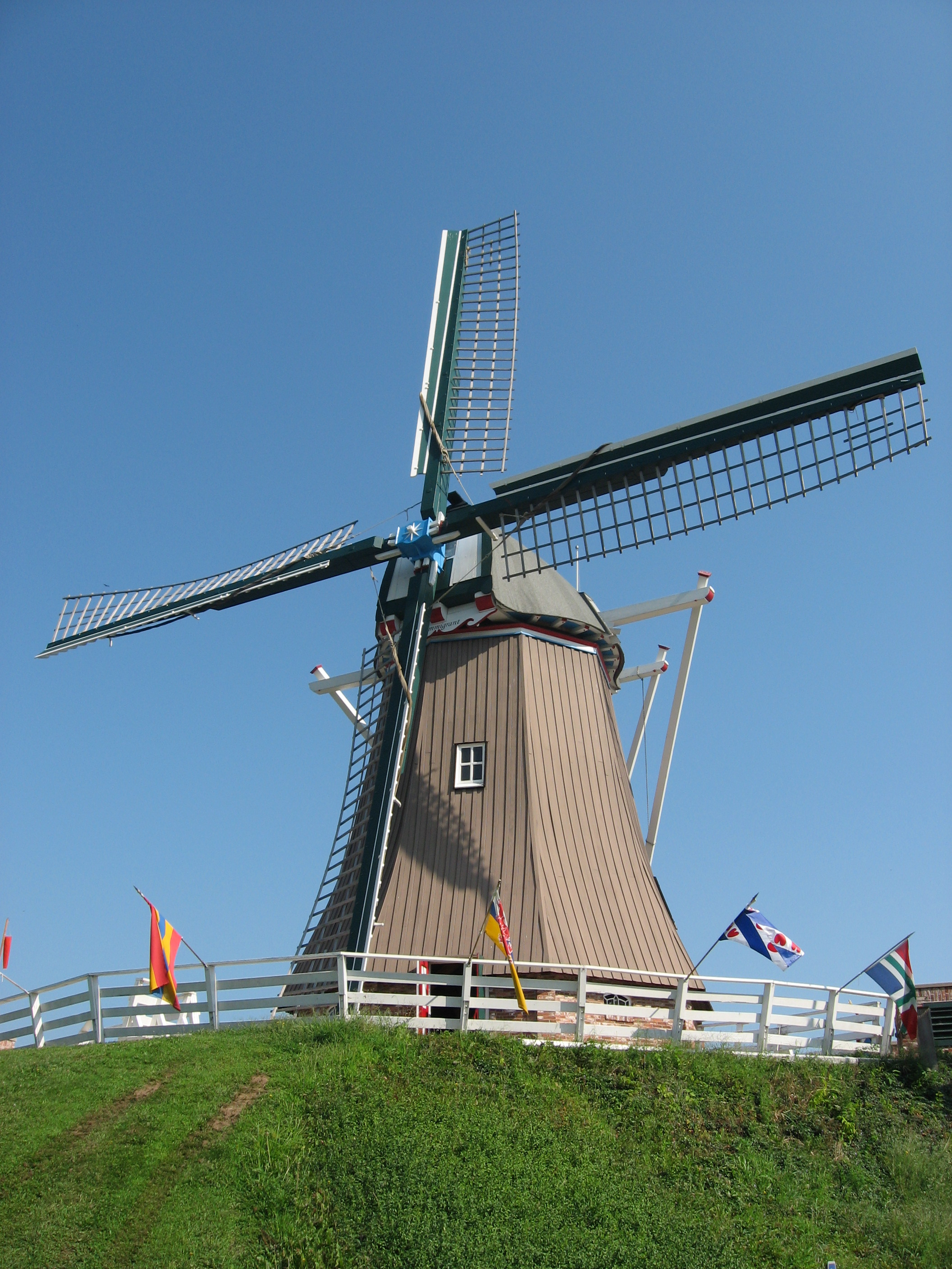 De Immigrant, authentic Dutch windmill, Fulton, IL